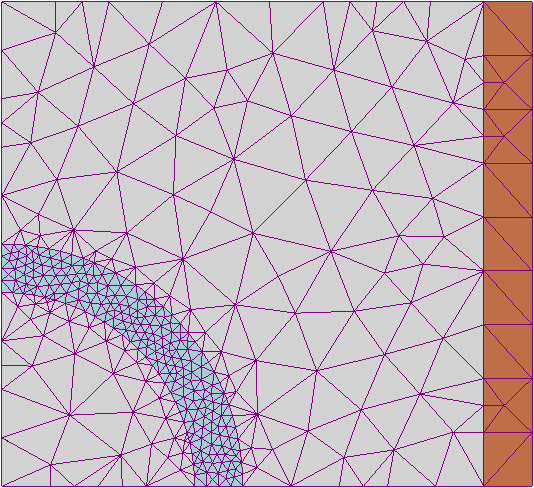 This is an example of a two-dimensional FEM (finite element method) mesh for a cylindrically shaped magnetic shield. The mesh is created by an analyst prior to solution by the FEM software. In this case "two dimensional" means that the picture shows a flat cross section of an assembly that extends to a large distance at right-angles to the paper (Cartesian coordinates). The rectangle outlined at the right of the picture has been designated the conducting component, which carries the electric current that creates the magnetic field. The cylindrical part has been designated to be a material of high magnetic permeability (for example iron). The gray areas have been designated air. The mesh is divided into smaller triangles inside the cylinder, which is an area where the lines of magnetic flux will be more concentrated. See also Image:FEM_example_of_2D_solution.png.